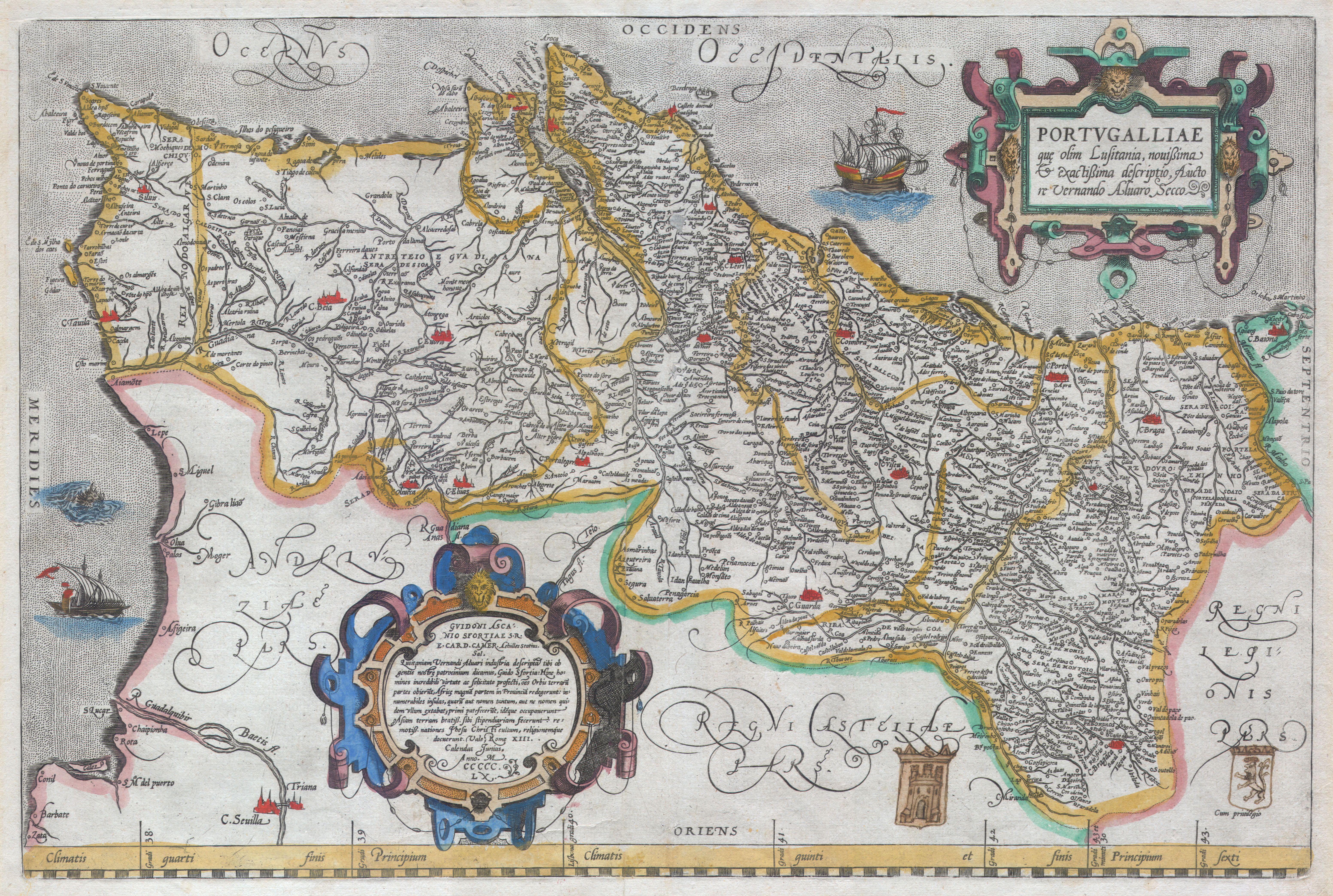 A rare and beautiful 1579 Abraham Ortelius map of the Kingdom of Portugal. Follows the extremely rare two sheet Alavaraz Secco map published by Michele Tramezzino in 1561. North oriented to the right. Sea decorated with monsters and sailing ships. Bottom right features two hand drawn heraldic emblems, a rather unique variation on this map. Features two elaborate cartouches in the top right and bottom left. Top right cartouche contains the map title in Latin, translated above. Bottom left cartouche include the following roughly translated text: Achilles Statius salutes Guido Ascanius Sfortia, S.R.E. Card. Camer. With dedication the Lusitania of Vernandus Alvarus has been depicted for you, Guido Sfortia, because we call it the protectorate of our people: from here men have sailed out with incredible courage in foul and fair. They have frequented all parts of the world. They added a large part of Africa to our country; countless is the number of islands, known only by name or not even that, because they had no name, which they first discovered and took in their possession. The most fair lands of Asia they have made tributaries; the most distant lands they taught the service and religion of Jesus Christ. Fare thee well. Rome, on the 13th day of the Calends of June, in the year 1560. Approximately 250 impressions of this exact state were printed. Approximately 8175 copies of this map, in various states, were printed from roughly 1570 to 1641. Most have been lost or destroyed. A very rare map.